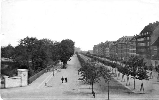 Nørre Voldgade a few years after its redesign into a boulevard in 1886 in Copenhagen, Denmark